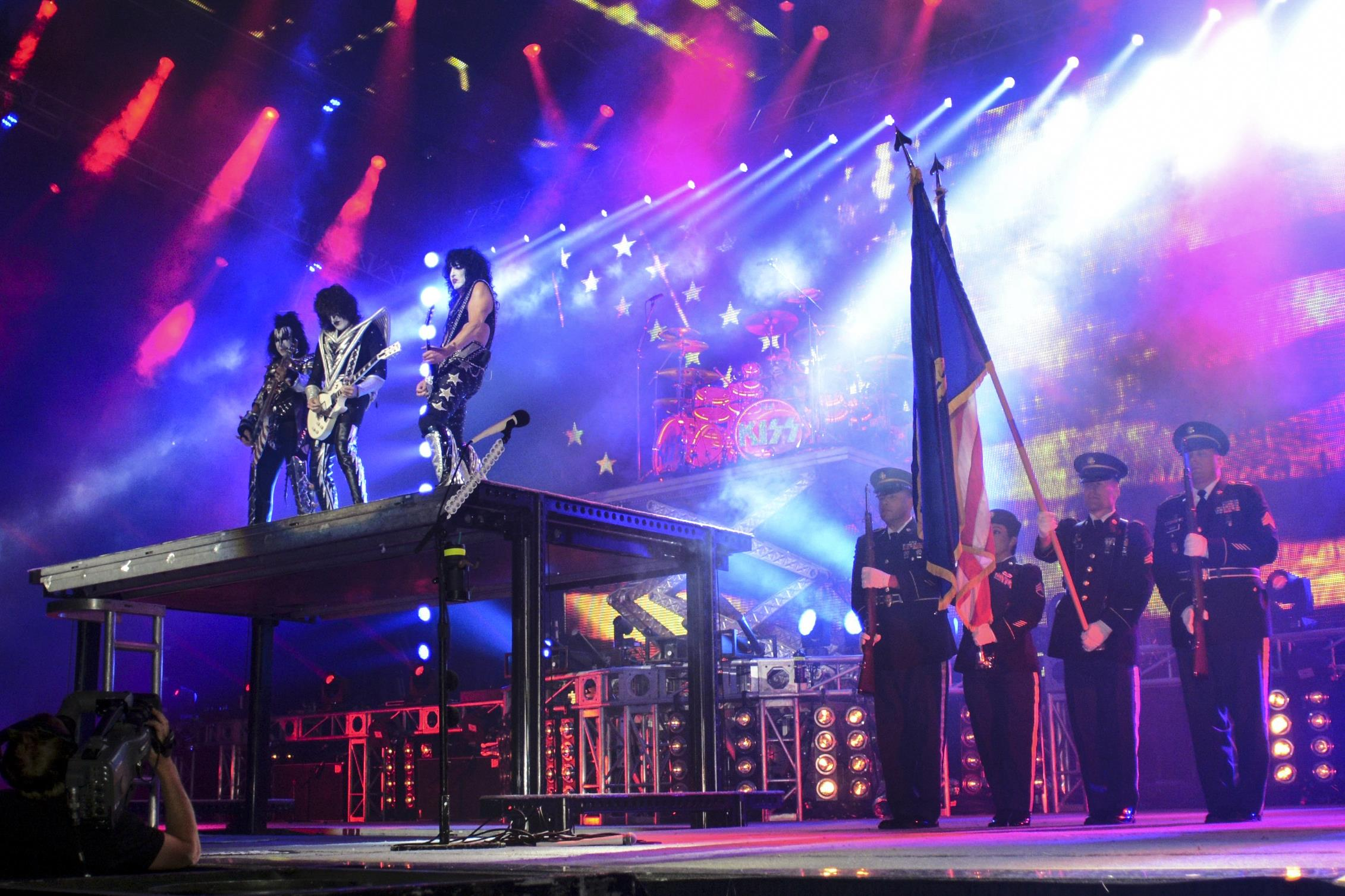 Members of the Oregon Army National Guard display the American flag on stage while the band Kiss performs the national anthem during the “Freedom to Rock” concert in Eugene, Oregon, July 9, 2016. The soldiers provided a color guard for the band’s patriotic tribute to U.S. military and veterans at the concert.